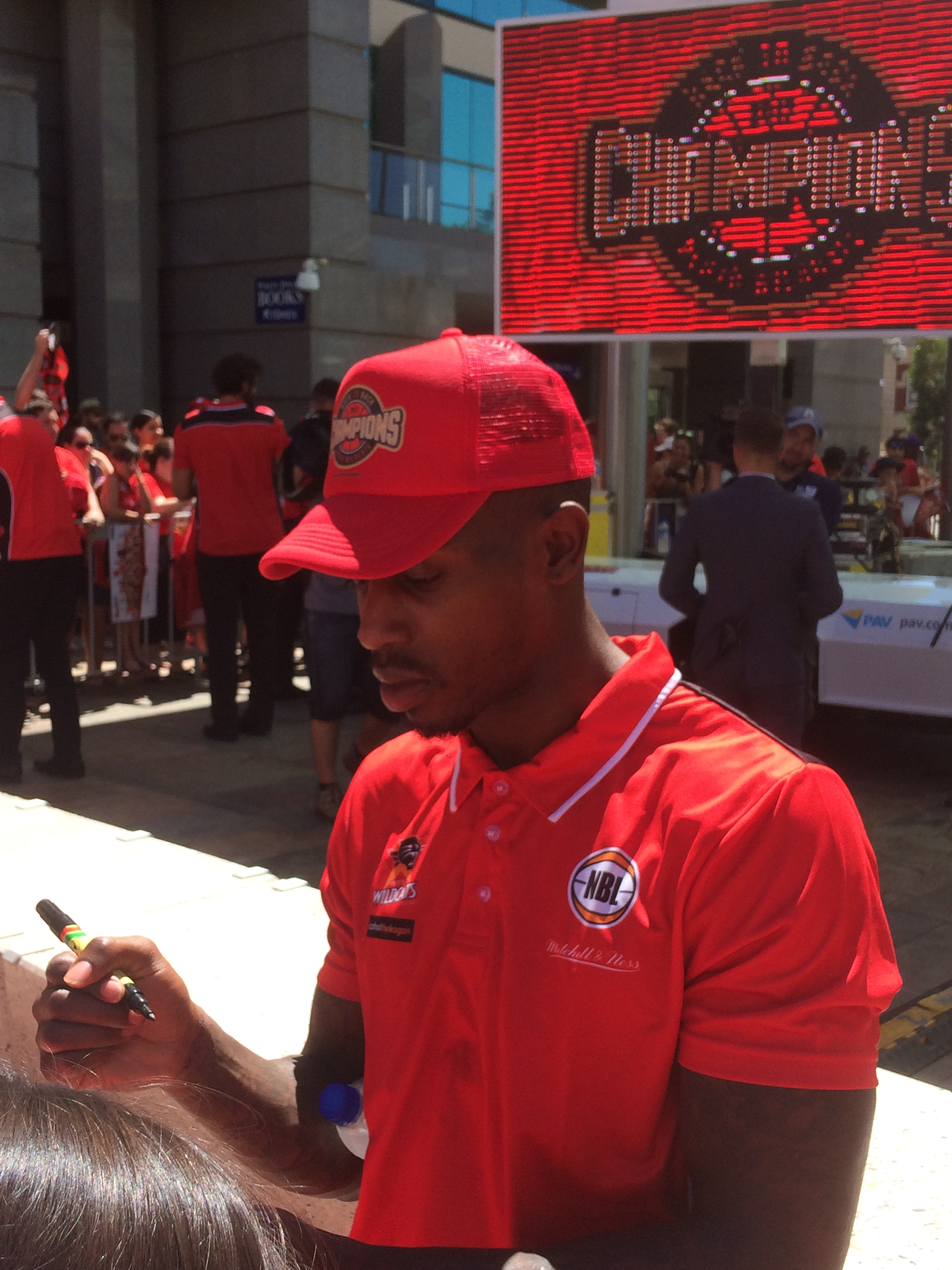 Casey Prather at the Perth Wildcats' 2017 championship ceremony